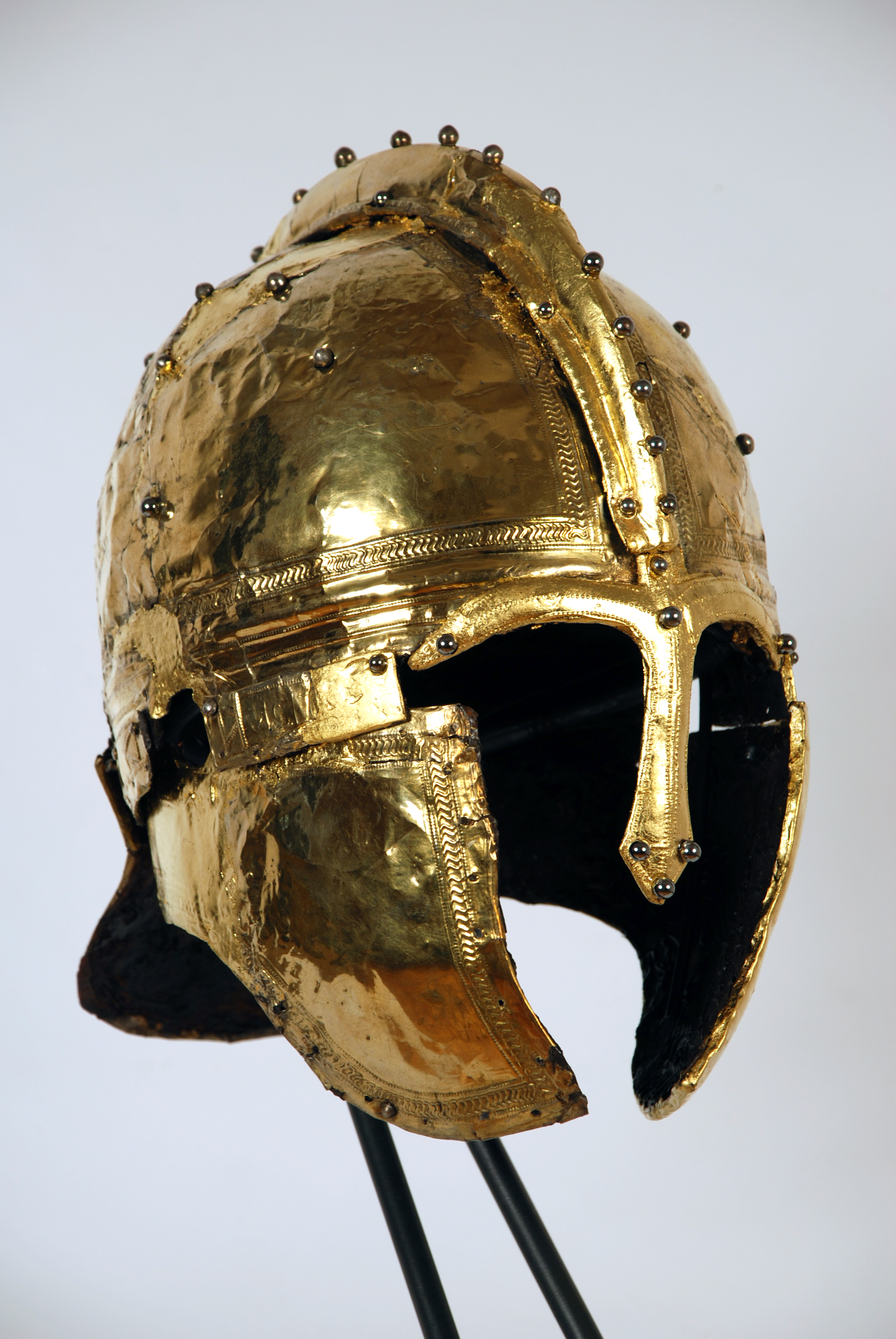 Late Roman helmet (Berkasovo/2), Berkasovo type, early 4th century. Found in 1955 near the village of Berkasovo (Šid, Vojvodina, Serbia) Srpski (latinica): Kasnoantički rimski šlem (Berkasovo/2), tip Berkasovo, druga decenija 4. veka. Pronađen 1955. u okolini sela Berkasovo kod Šida